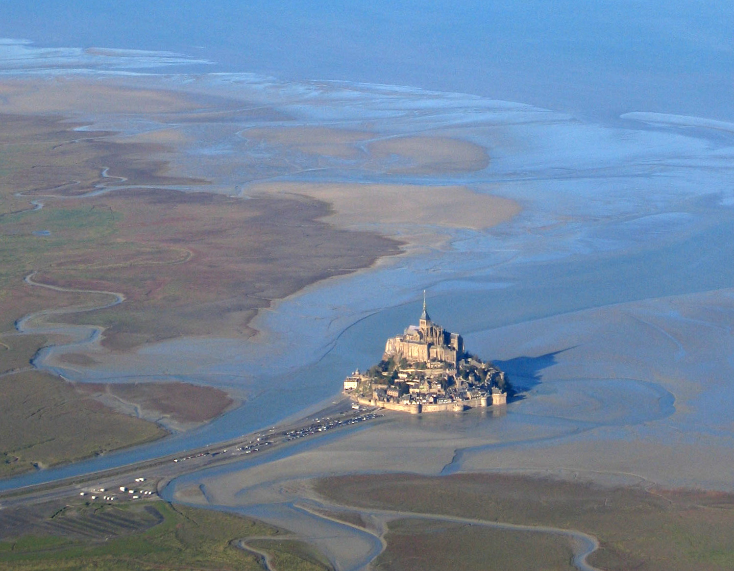 Aerial photograph of the Mount Saint-Michel